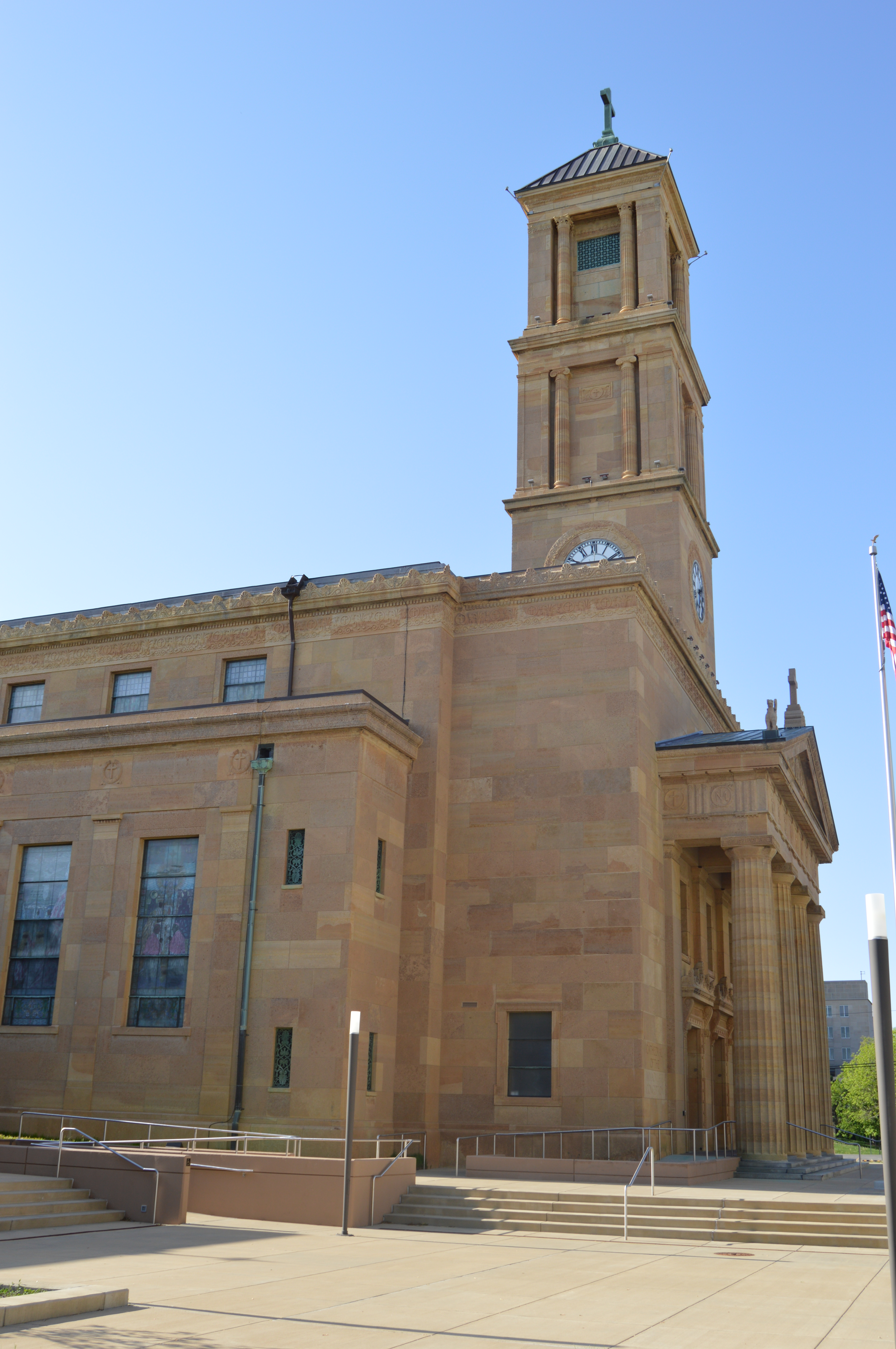 Tower and front of the Cathedral of the Immaculate Conception in Springfield, Illinois, United States. Located on Sixth Street at Lawrence, it is the cathedral for the Diocese of Springfield in Illinois.